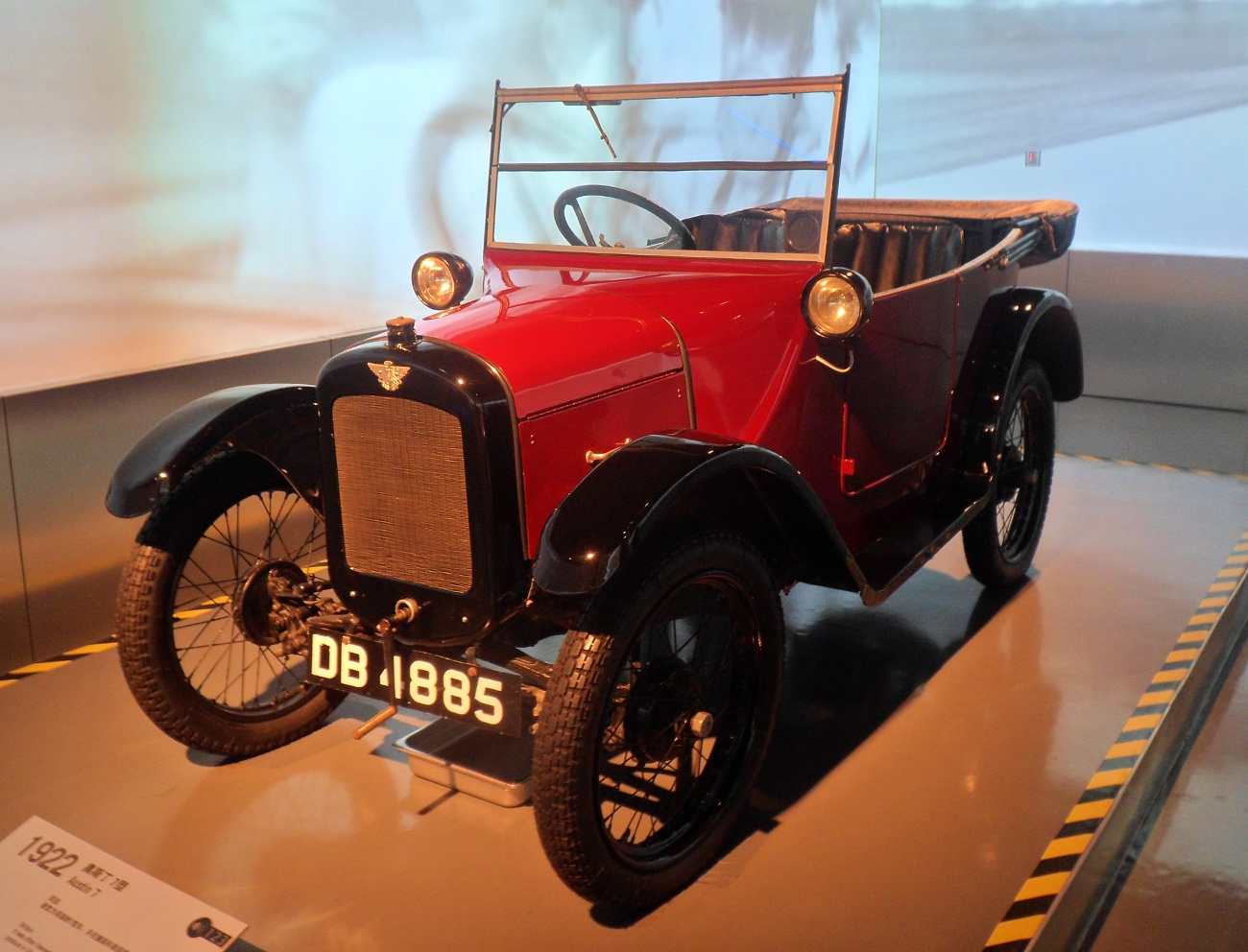 1922 Austin 7 photographed at the Shanghai Automobile Museum, Anting, China.